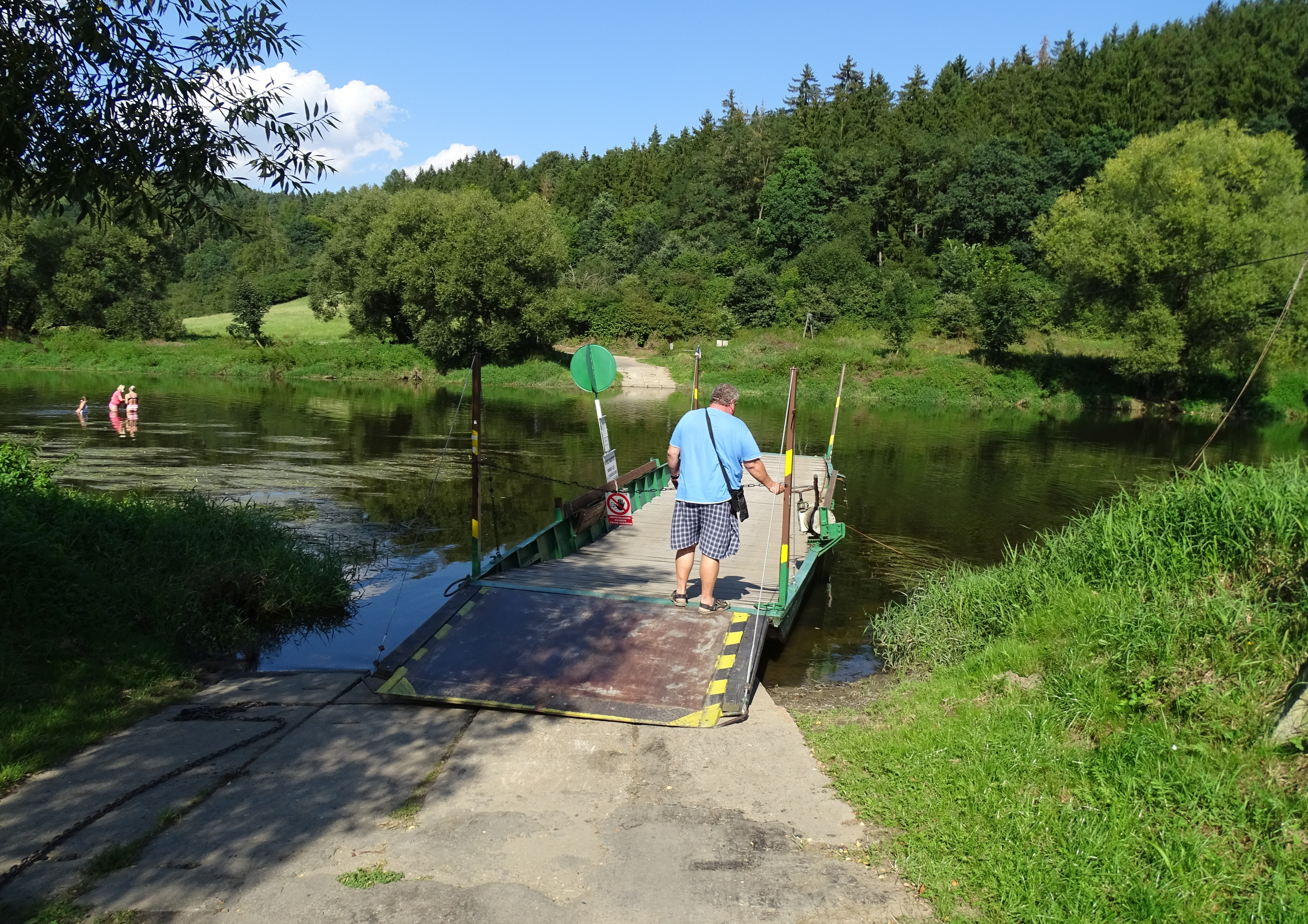 Břasy-Kříše, Rokycany District and Nadryby, Plzeň-North District, Plzeň Region, the Czech Republic. Nadryby ferry.